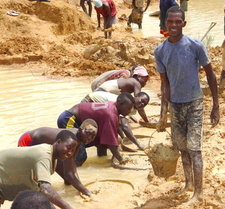 Alluvial diamond miners in Kono District, Sierra Leone.